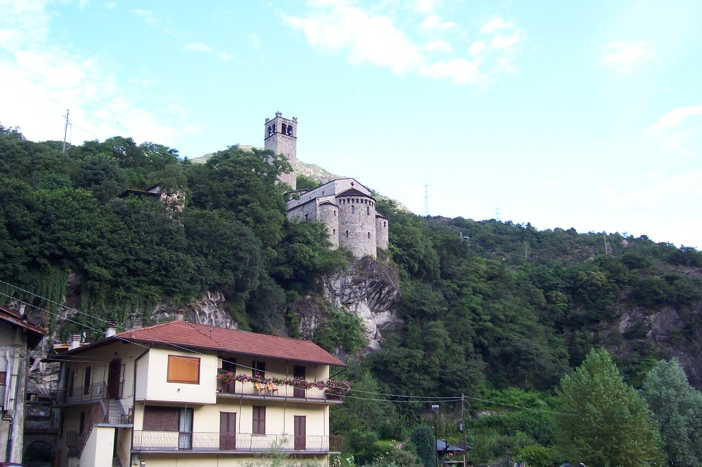 Pieve of Saint Syrus. Cemmo, Capo di Ponte, Val Camonica